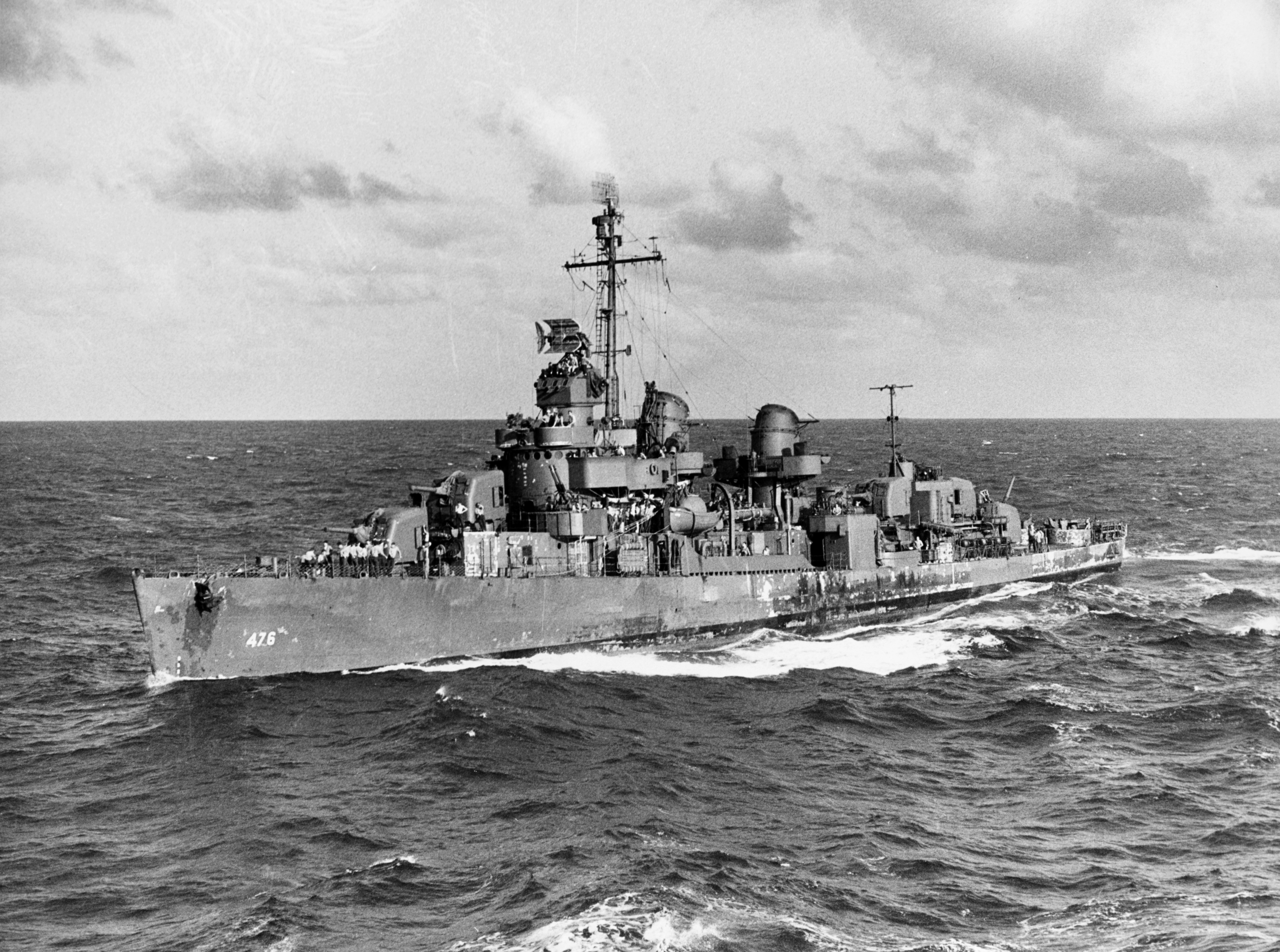 The U.S. Navy destroyer USS Hutchins (DD-476) underway at sea on 24 February 1945. The photo was taken from the escort carrier USS Makin Island (CVE-93).